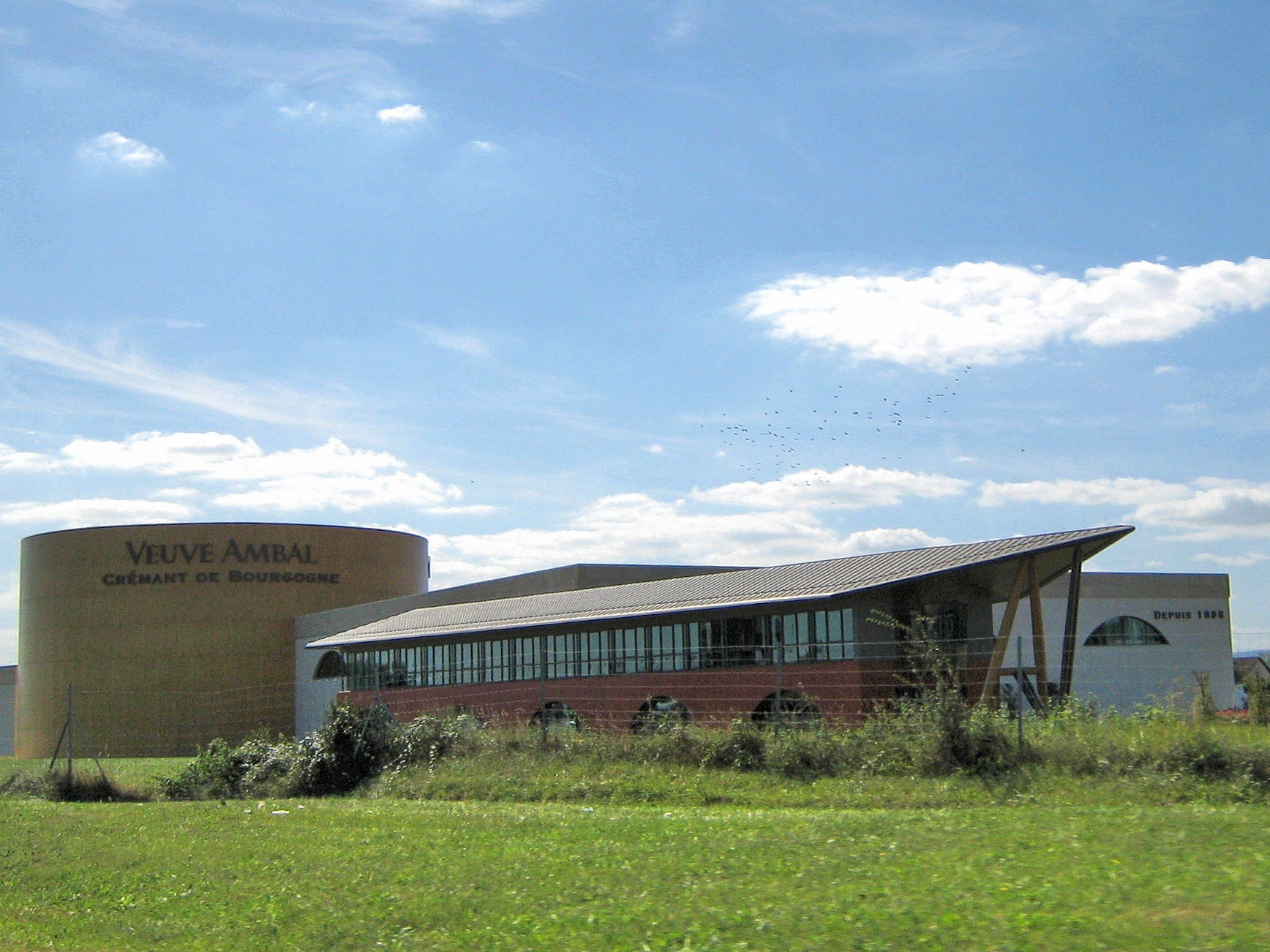 Veuve Ambal, a winery that makes Crémant de Bourgogne in Montagny-lès-Beaune, near Beaune in Burgundy. Photo taken from the A6/E21 autoroute, so it's not brilliant.